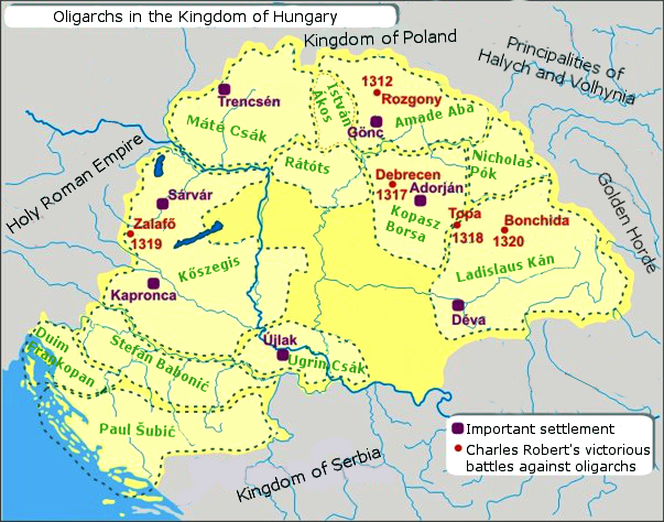 Oligarchs in the Kingdom of Hungary (14th century), sources: Történelmi atlasz: „A kiskirályok (1310)” (28. o.) / Historical atlas "the Oligarchs (1310)" (p. 28), + [1], [2], [3], [4], [5]